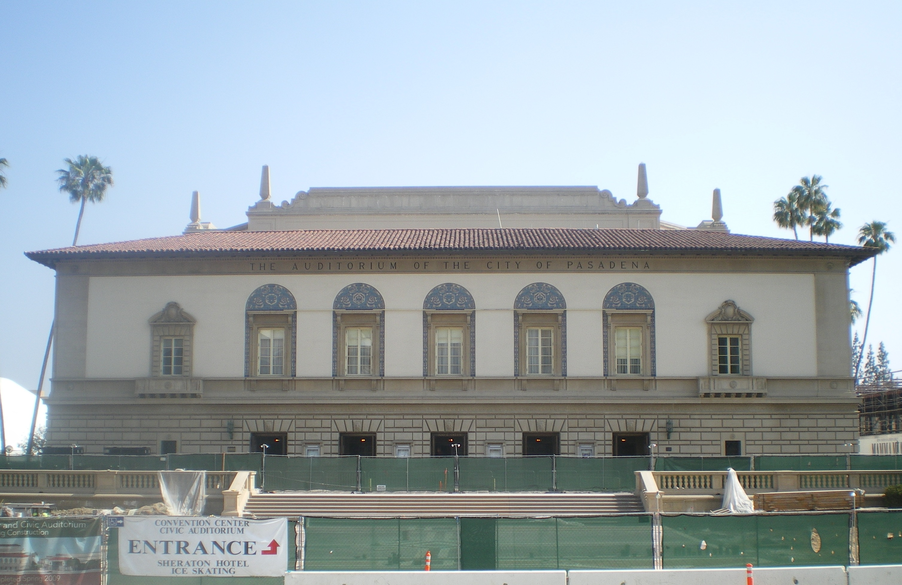 Pasadena Civic Auditorium — at the Pasadena Civic Center, downtown Pasadena, California. On the National Register of Historic Places. (during renovation, May 2008)